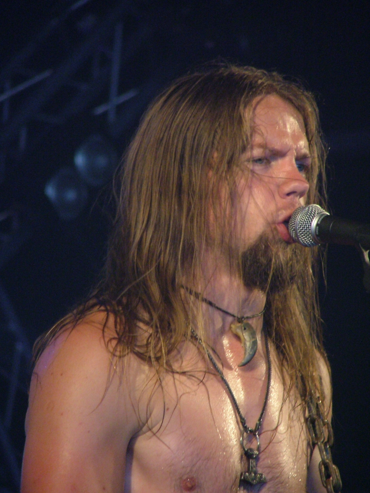 Metal band Týr live at Tuska-Festival